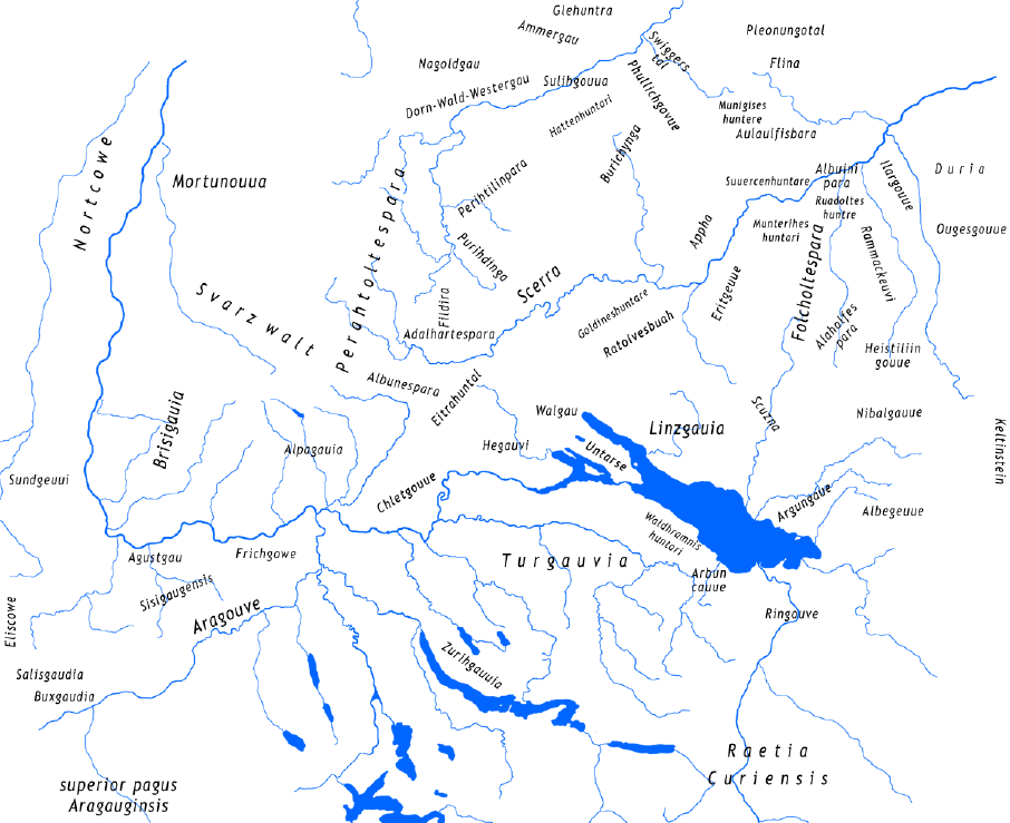 map showing the names of the pagi in early medieval Alamannia/Svavia